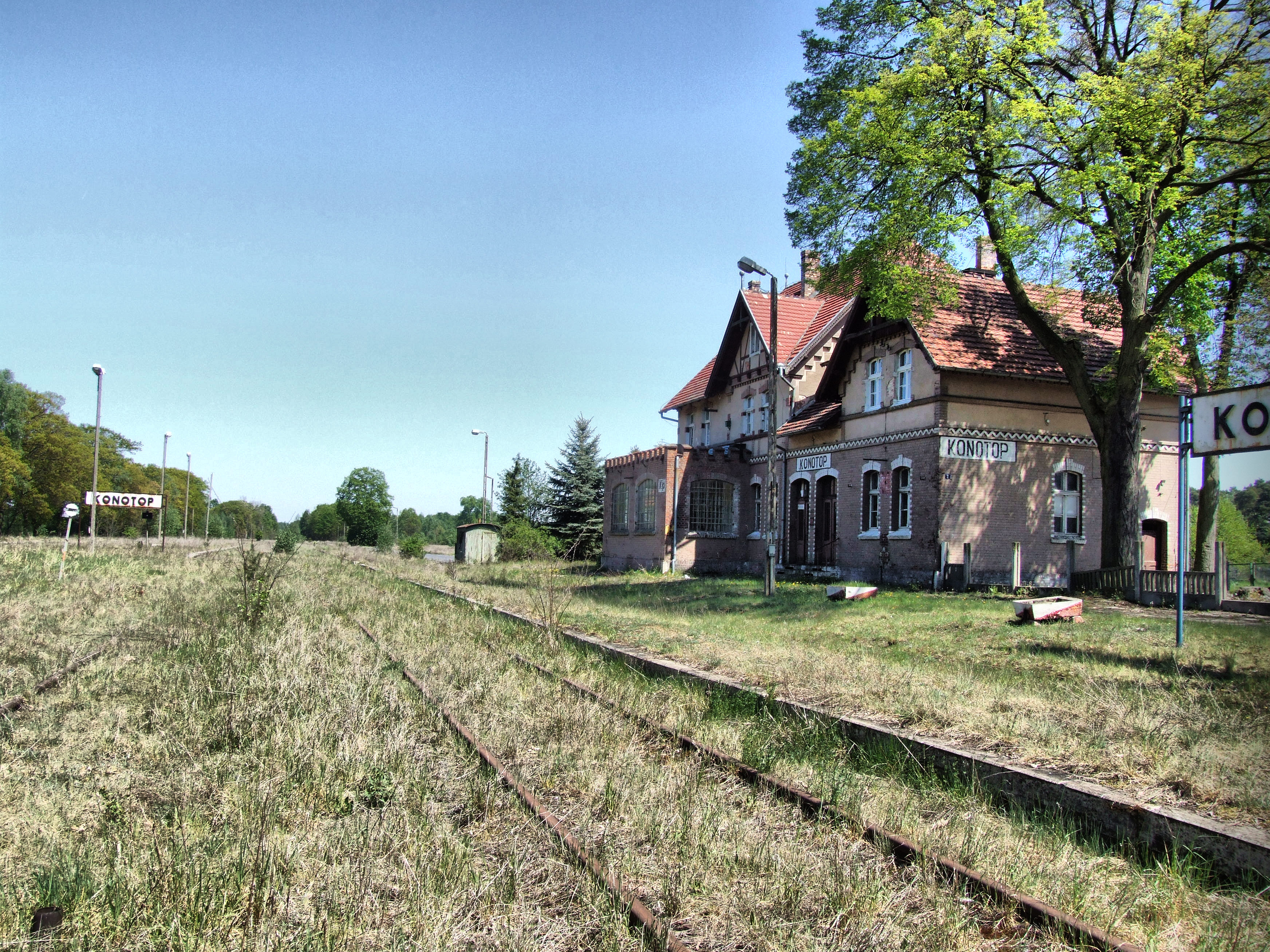 Konotop, the railway station